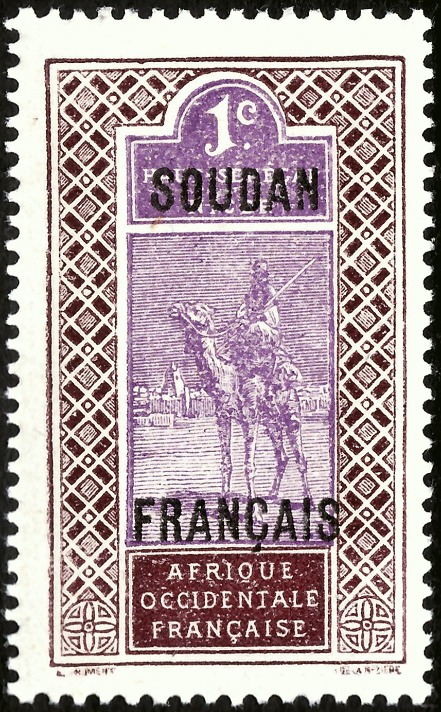 Stamp of the colony "French Soudan"; 1921; definitive stamp of the French colony "French West Africa - Haute Sénégal et Niger" from 1914 of the issue "Targui rider on dromedar" with overprint of a new country name; stamp motive with a rider of an Camelus dromedarius ("Targui" = Sing. from "Tuareg") with overprint of the new country name; mint stamp Stamp: Michel: No. 20 (= "Französisch-Westafrika - Haut Sénégal et Niger", No. 18 from 1914 with overprint); Yvert et Tellier: No. 20; Scott: No. 21 Color: brown violet / purple with black overprint Watermark: none Nominal value: 1 C. (Centime) Postage validity: from 1921 until ? Stamp picture size (printed area): 20.5 x 35.0 mm